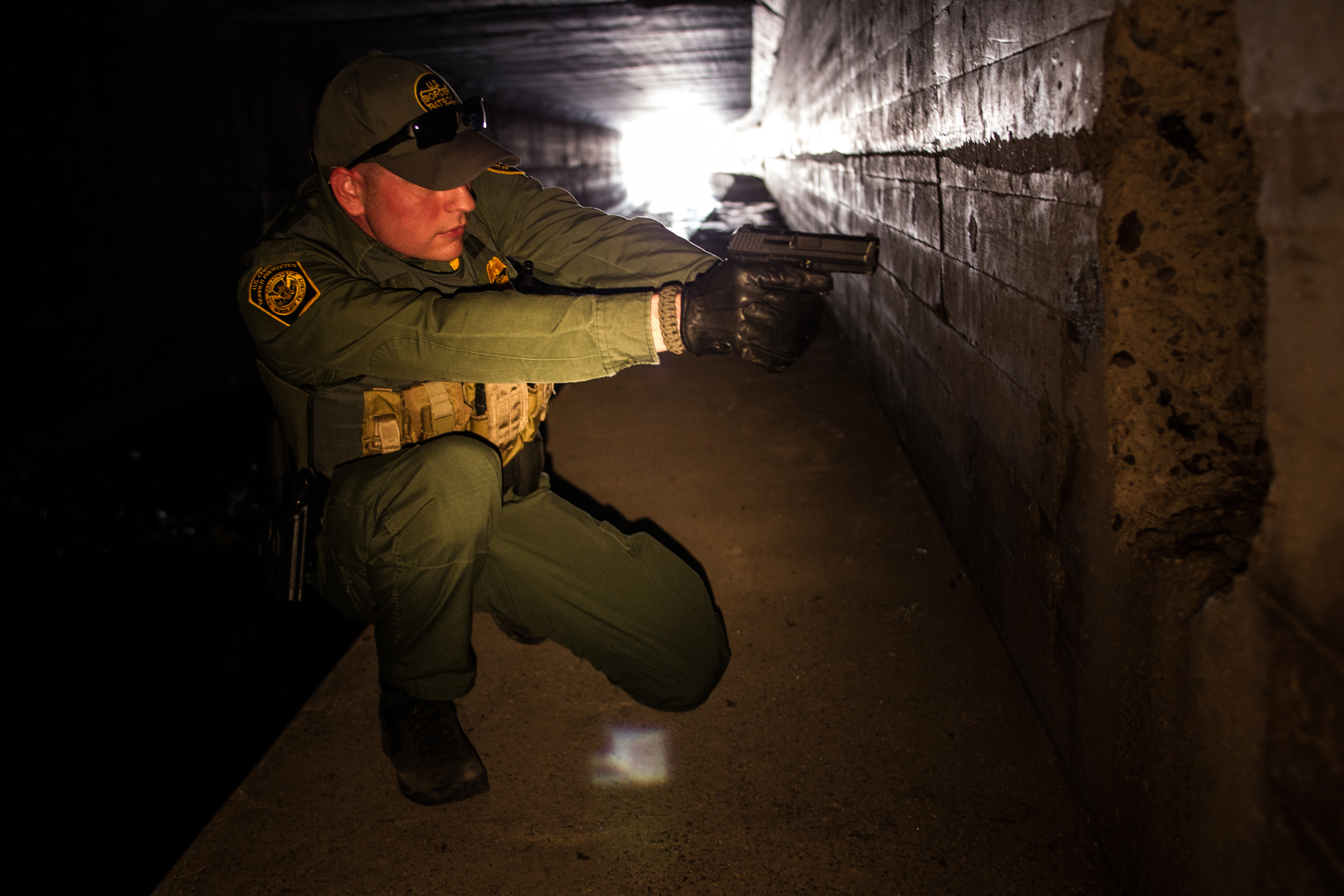 Border Patrol Agent in Nogales, Arizona Photographer: Josh Denmark